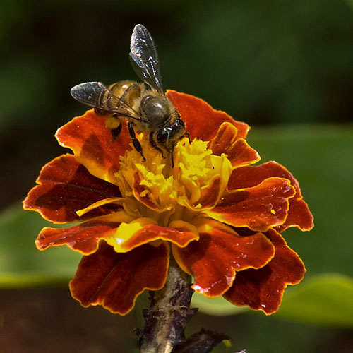 I shot this image in my Garden in Bangalore City, Karnataka, India.